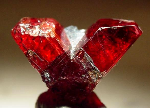 Rhodonite Locality: Broken Hill, Yancowinna County, New South Wales, Australia (Locality at ) Size: thumbnail, 1.7 x 1.1 .9 cm Rhodonite (twin) Rhodonite crystals that are transparent and have excellent red color, luster, and habit. 1.7 x 1.1 .9 cm